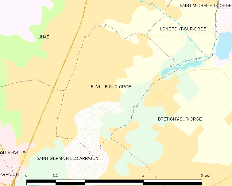 Map of French municipality Leuville-sur-Orge